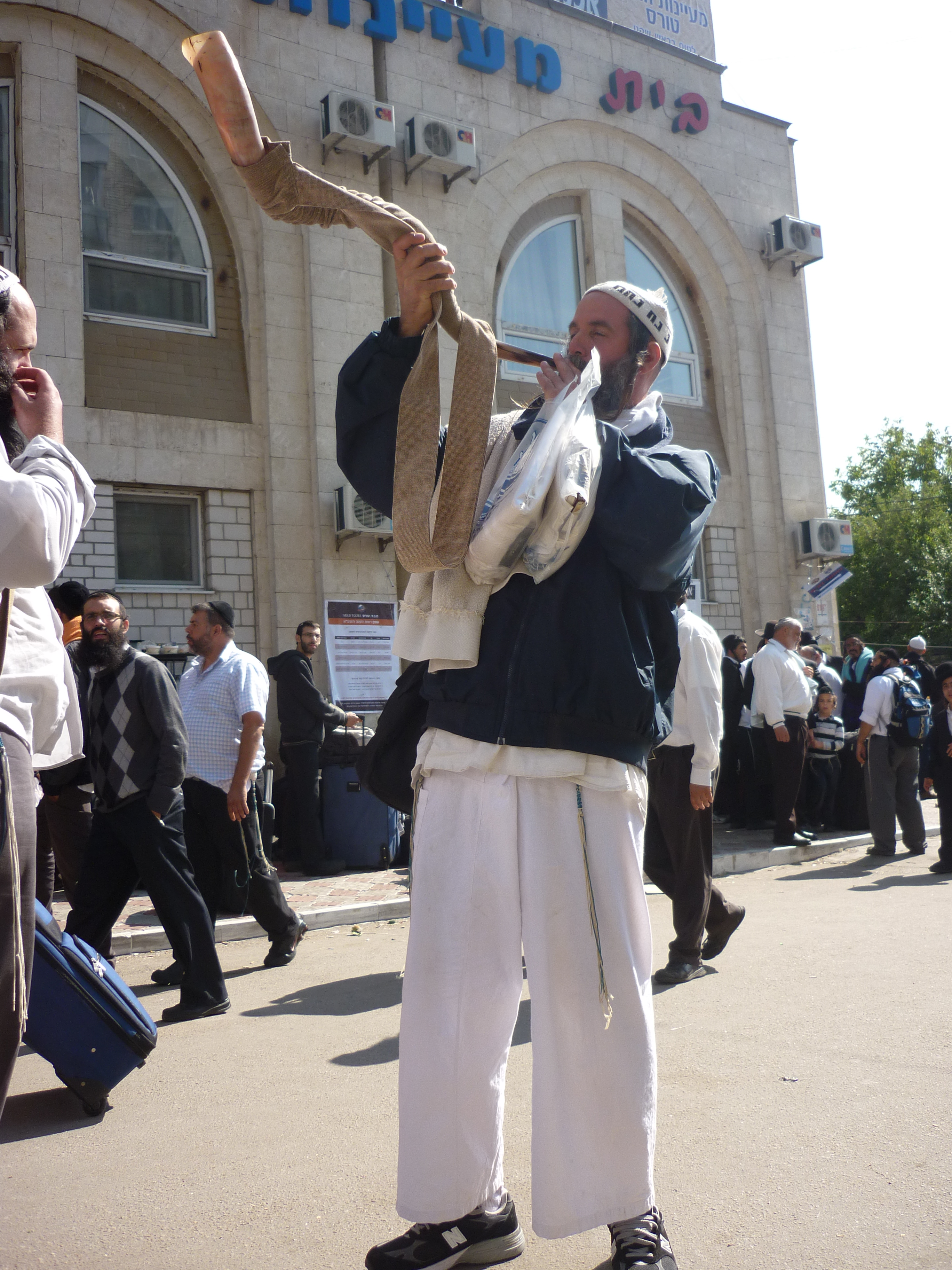 Hasidic peoples in Uman